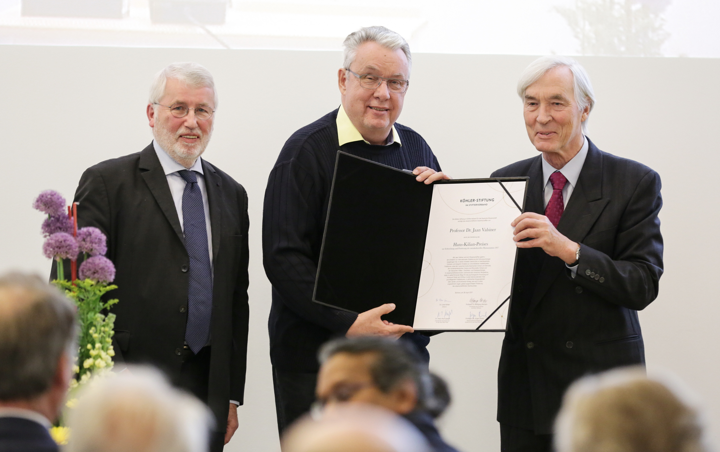 Hans-Kilian-PreisRuhr-Universität Bochum, 28 April 2017Foto: Sven Lorenz, Essen